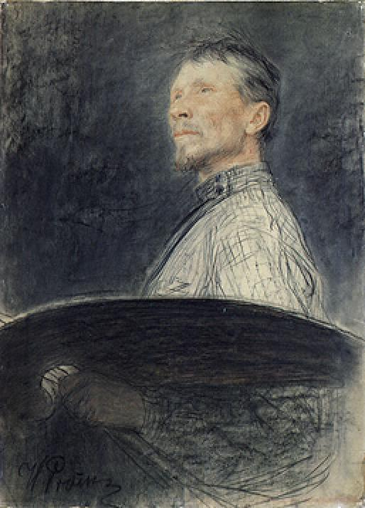 Portrait of Abram Efimovich Arkhipov. Pastel and charcoal on Paper. 73.7 × 54.6 cm. Montana Museum of Art and Culture, Missoula.